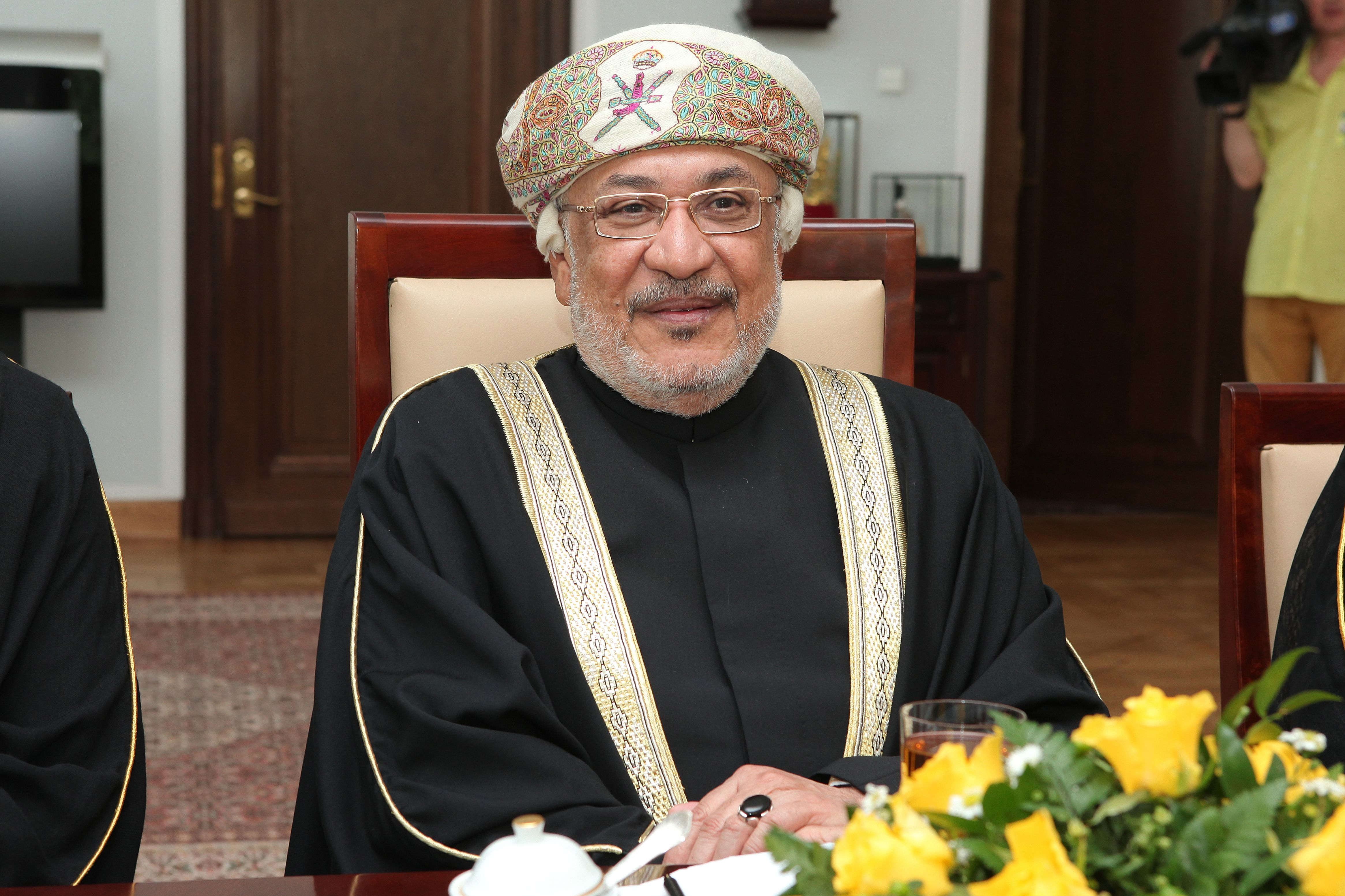 Yahya Bin Mahfoodh Bin Salim Al-Manthri, president of State Council of the Sultanate of Oman, in the Polish Senate